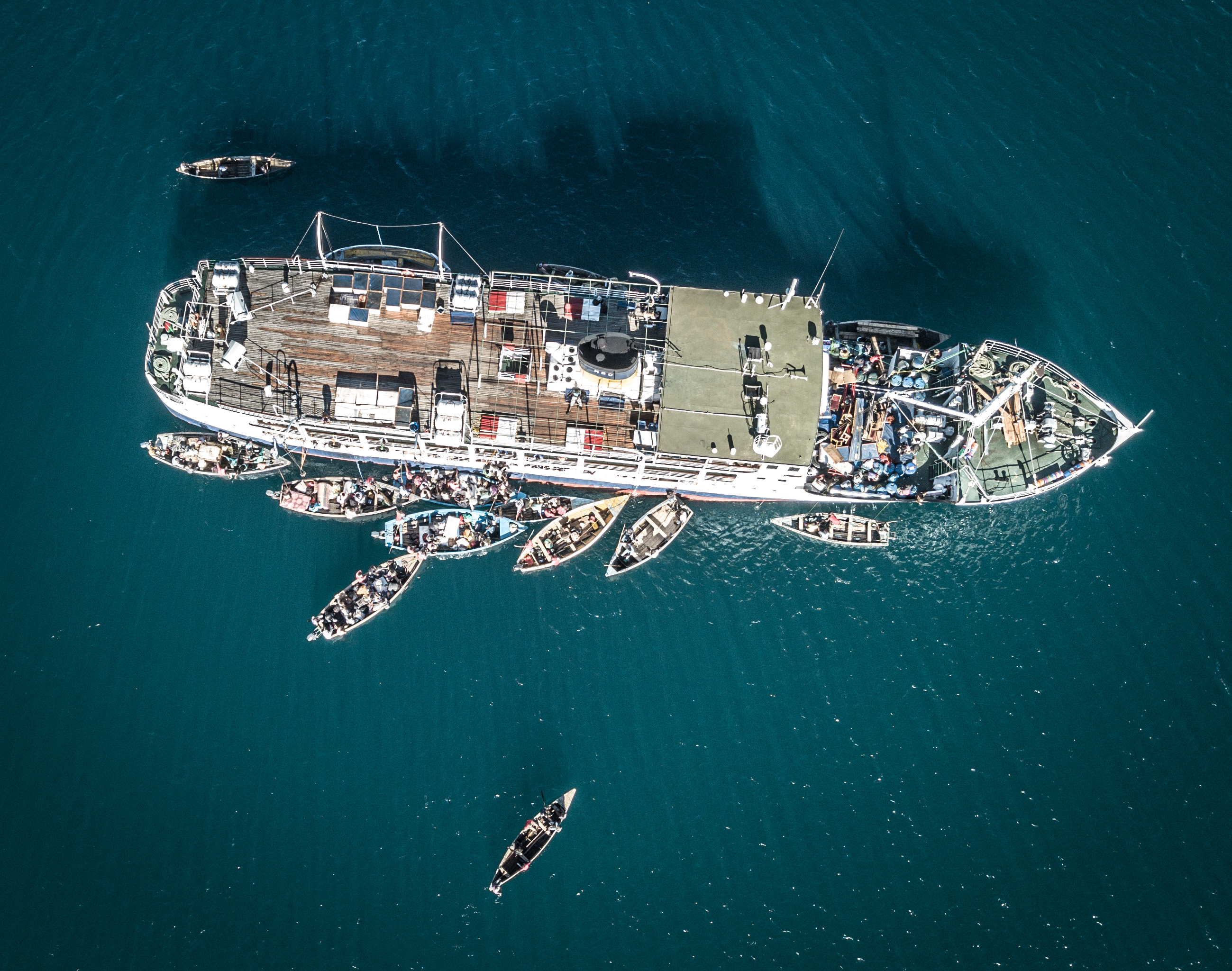 This is an image with the theme "Africa on the Move or Transport" from: Malawi